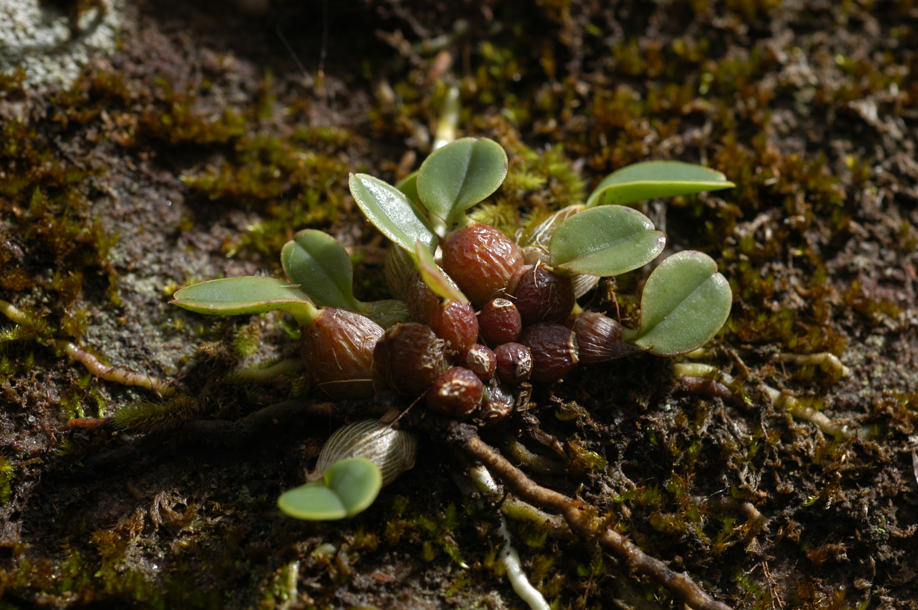 Sydney Rock Orchid, Dendrobium speciosum